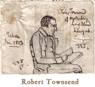 Picture is of Robert Townsend sitting in a chair reading a book